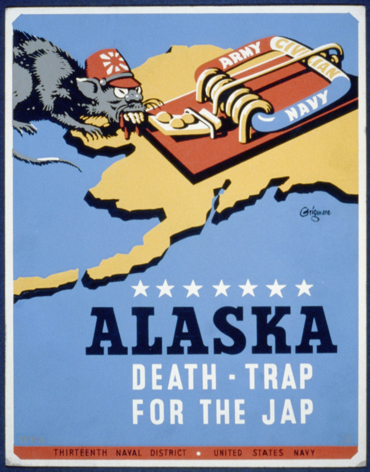 Alaska - death-trap for the Jap / Grigware. Propaganda Poster for Thirteenth Naval District, United States Navy, showing a rat wearing a rising sun fez, representing Japan, approaching a mousetrap labeled "Army / Civilian / Navy", on a background map of the state of Alaska.